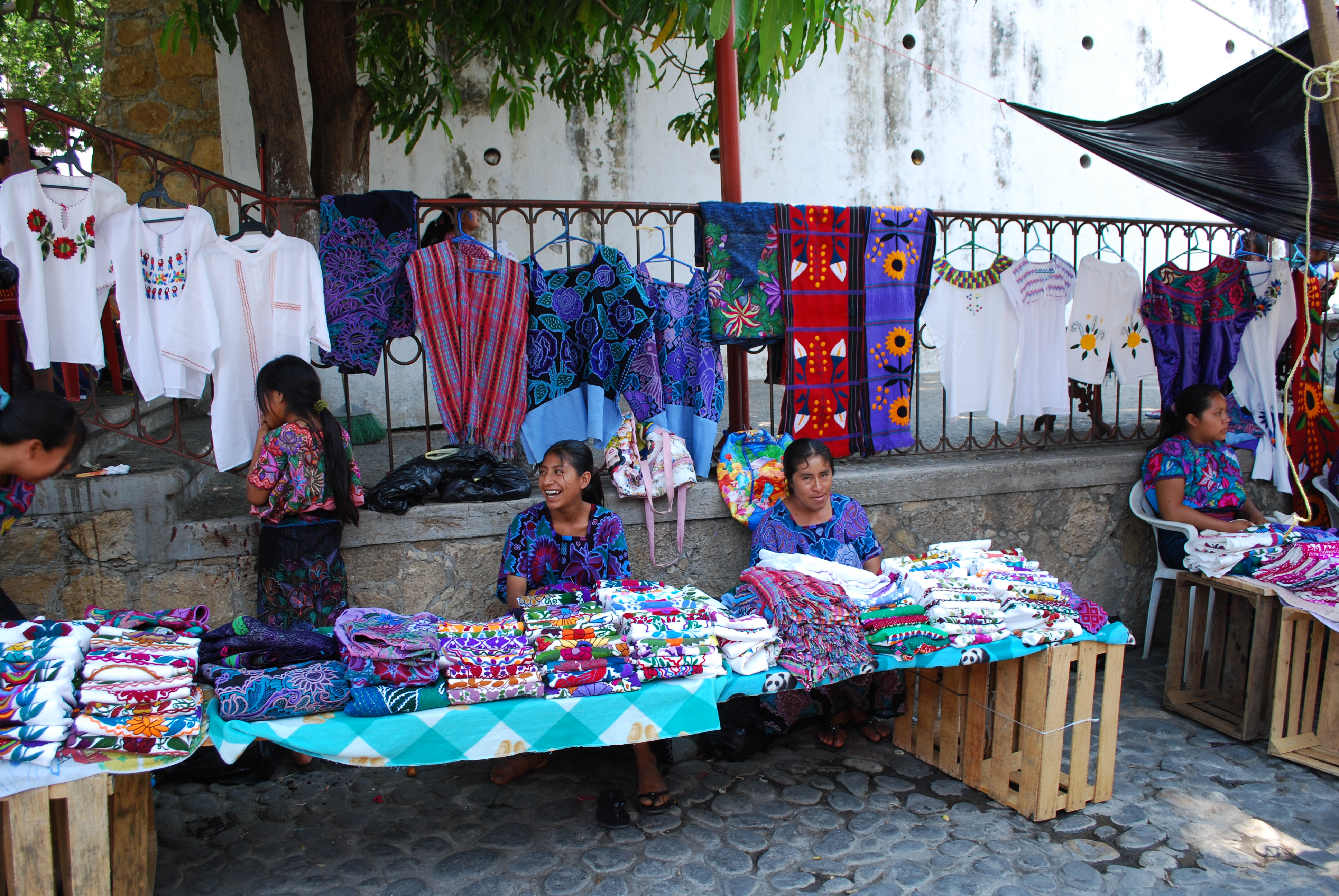 Indigenous women selling clothing in front of the Santo Domingo Church in Chiapa de Corzo, Chiapas, Mexico